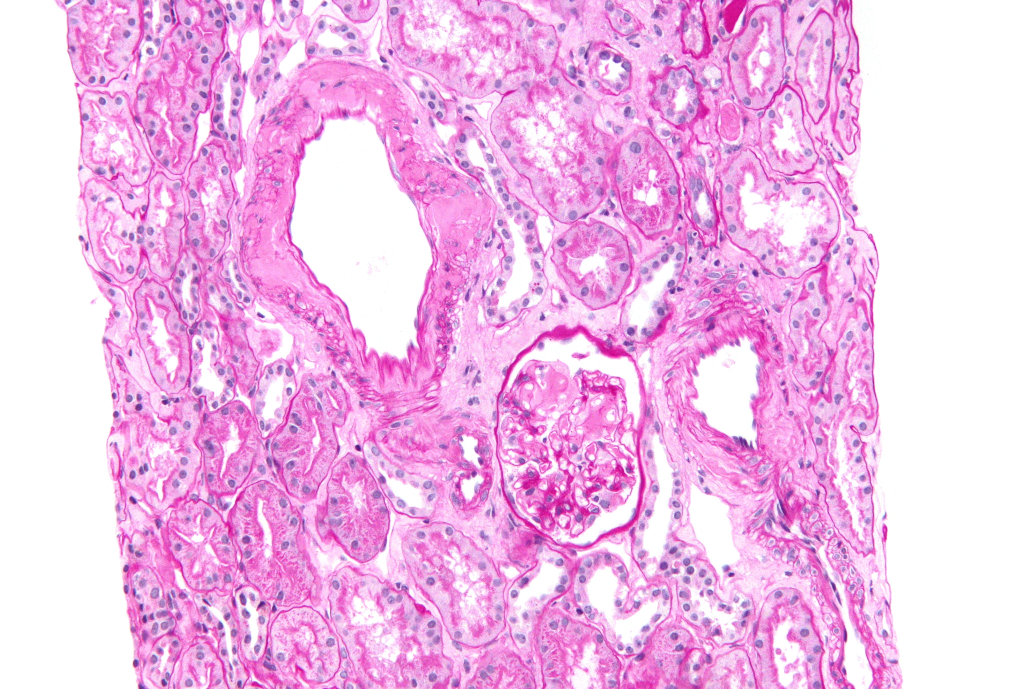 High magnification micrograph of renal amyloidosis, also known as kidney amyloidosis and amyloidosis of the kidney. Kidney biopsy. PAS stain. Related images High mag. Very high mag. High mag. Very high mag.